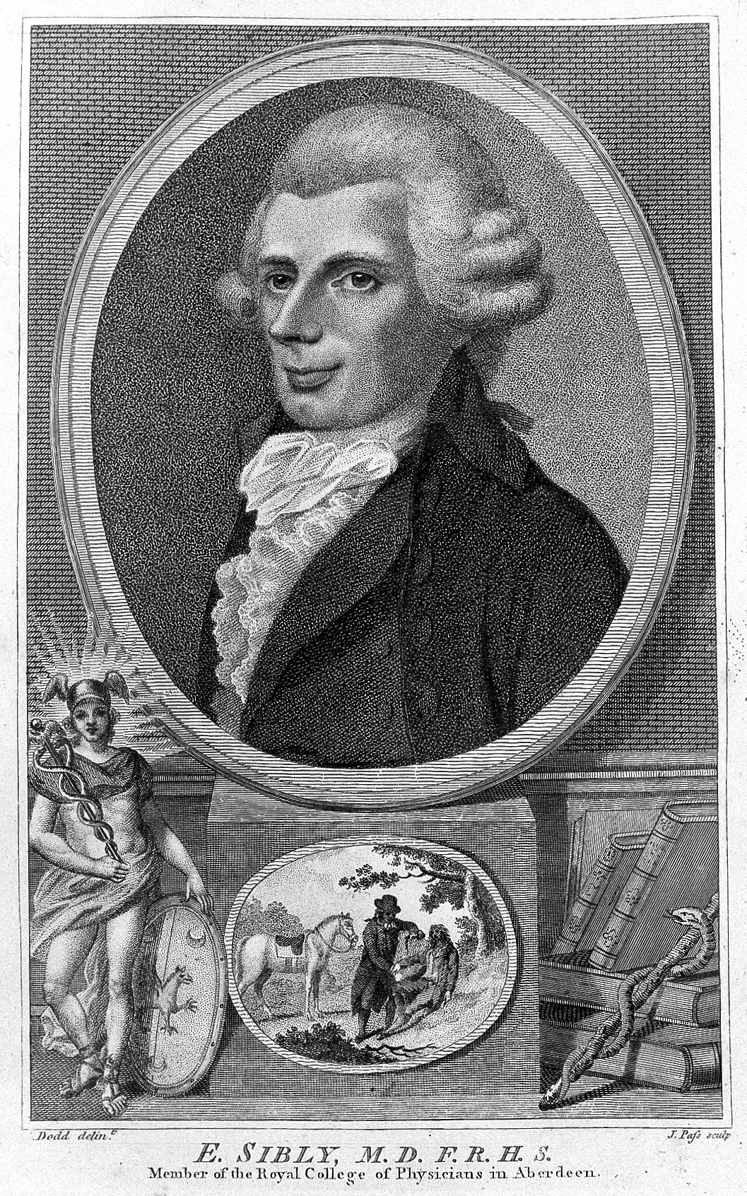 Ebenezer Sibly, the British astrologer. Rare Books Keywords: Astrology; Ebenezer Sibly